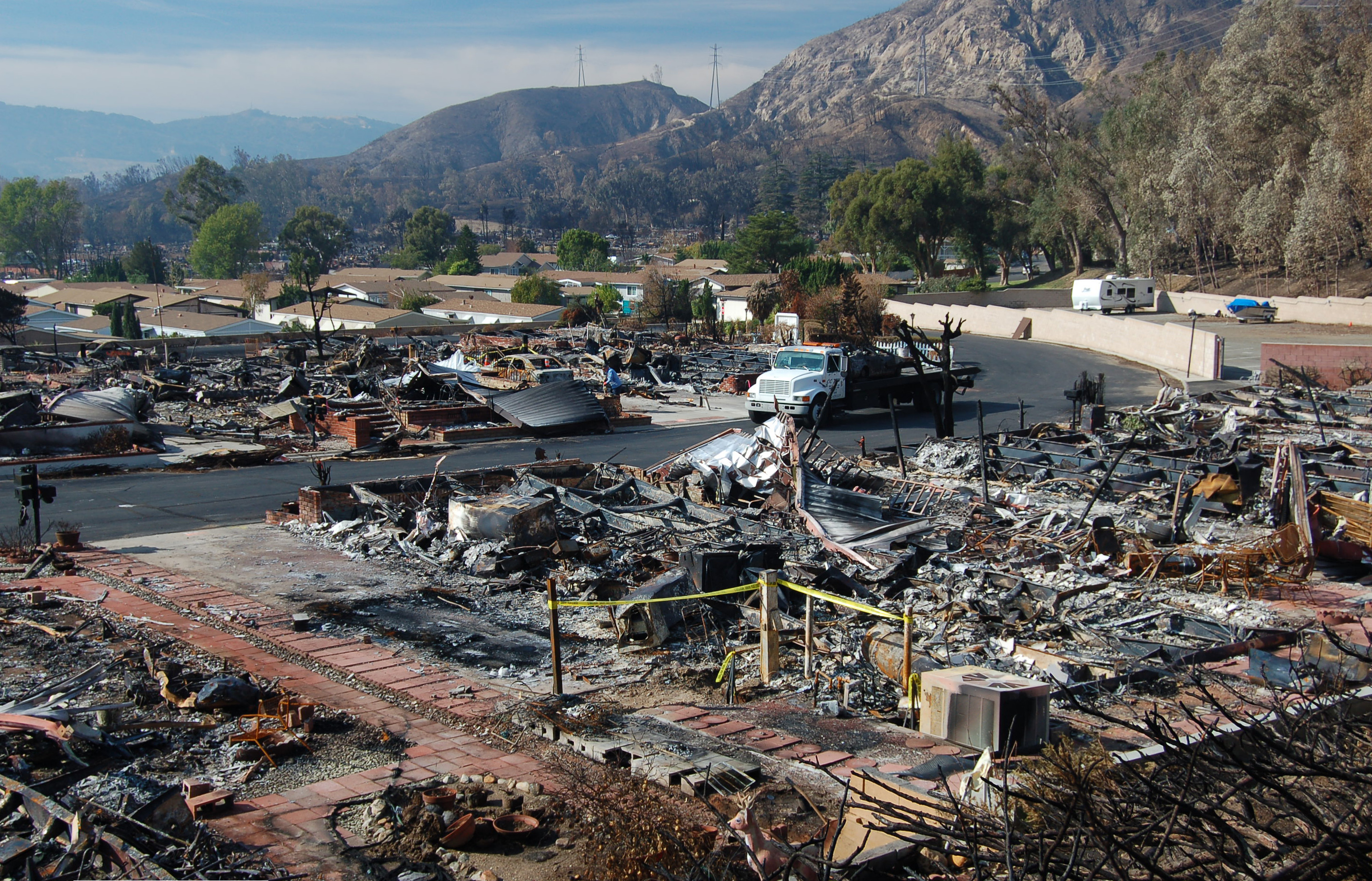 The remains of a mobile home park in Sylmar, California. 480 of the park's 600 mobile homes were burned in the Sayre Fire in November 2008. The homes in the background that did not sustain fire damage become uninhabitable due to the lack of utilities.